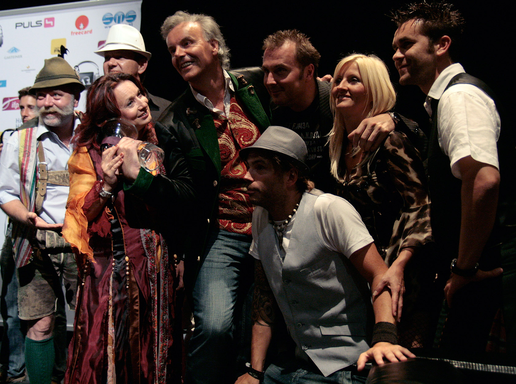 Die Seer at the Amadeus Austrian Music Award (Museumsquartier, Vienna)